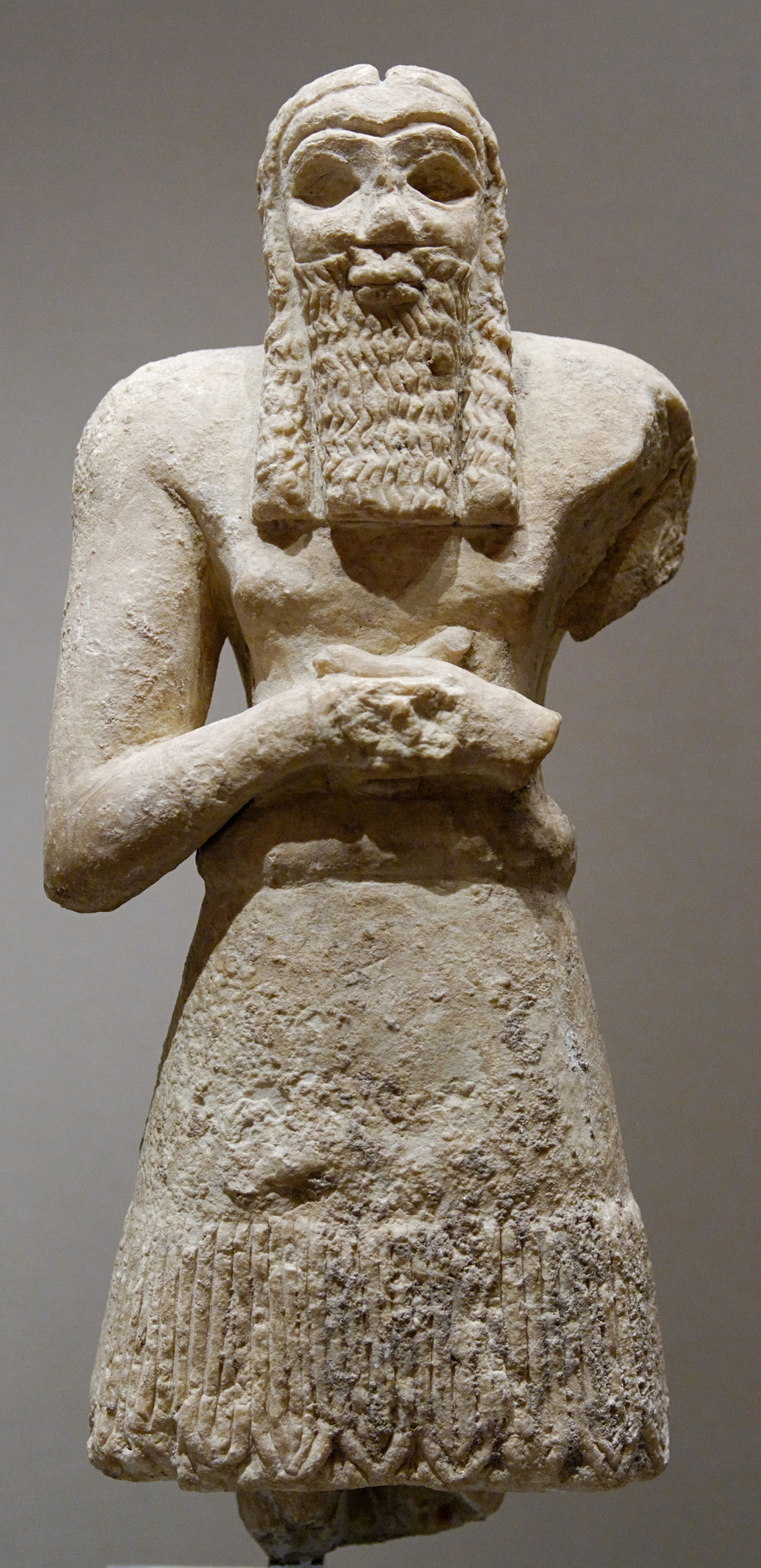 Orant figure dedicated by Ginak, ensi of Edin-e, a still unknown Sumerian city-state. Gypsum, ca. 2700 BC. From the Diyala Valley.